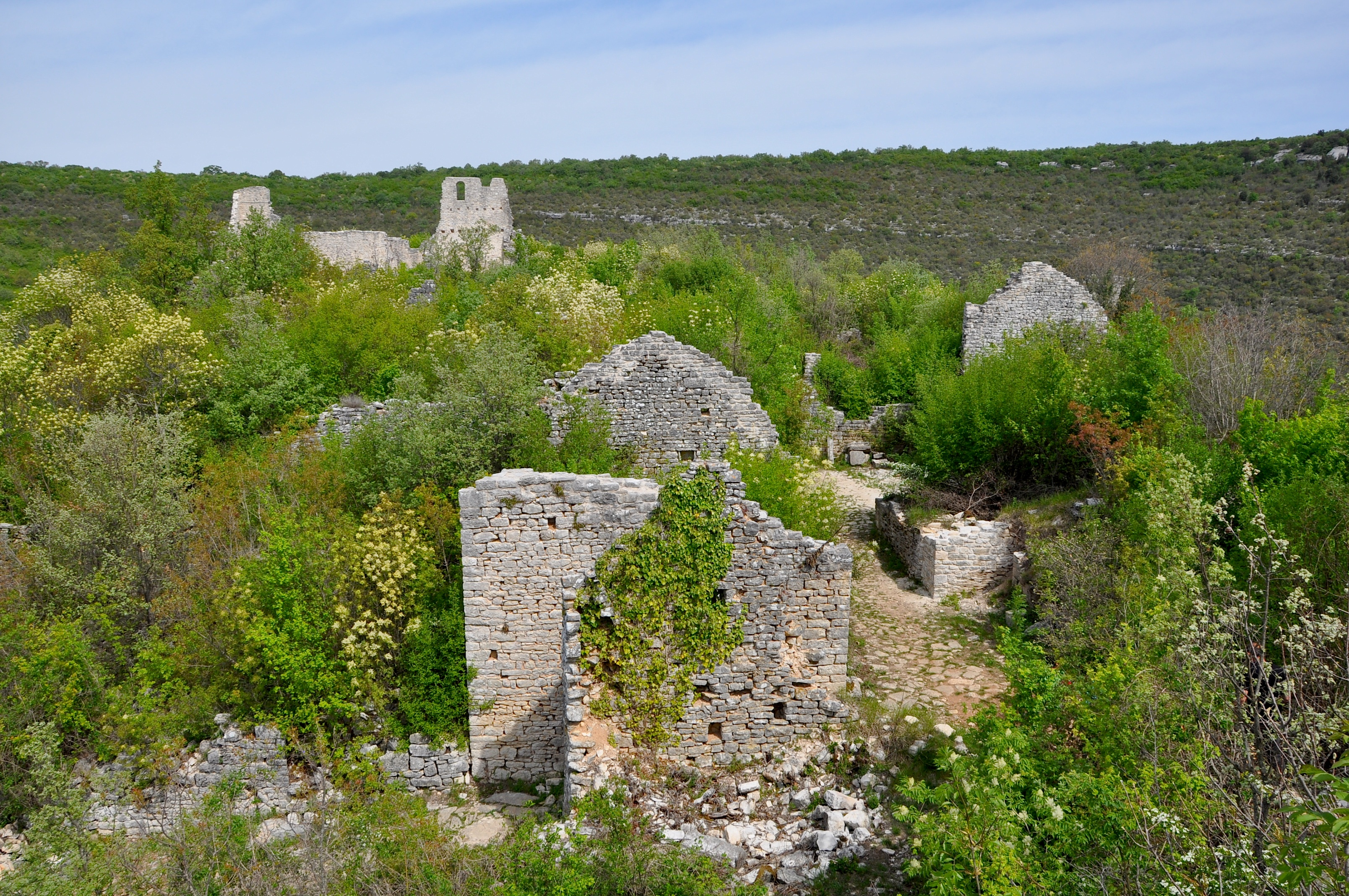 Dvigrad, abandoned medieval castle in ruins; Istra, Croatia (near Kanfanar) - OpenStreetMap(Info)